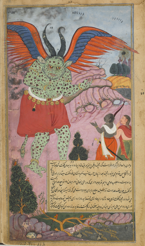 Folio from the Ramayana of Valmiki (The Freer Ramayana), Vol. 1, folio 138; recto: Kabandha tells Rama and Laksmana how he came to have his hideous form; verso: text 1597-1605 Shyam Sundar , (Indian, Mughal dynasty Opaque watercolor, ink, and gold on paper H: 25.9 W: 14.1 cm Northern India Gift of Charles Lang Freer F1907.271.138